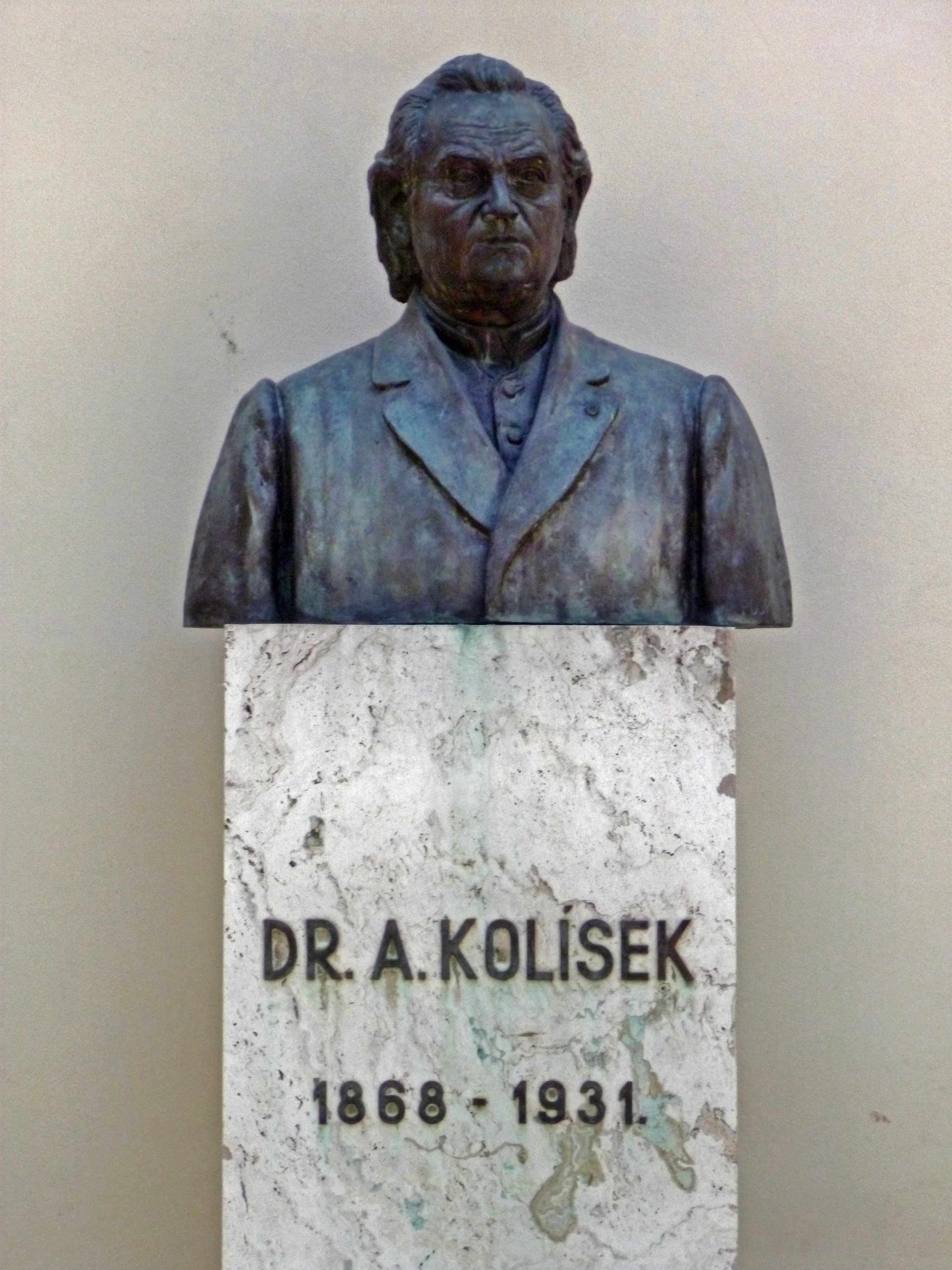 Statue of Alois Kolisek (1868-1931), one of the leaders of the Society of Moravian Artists; statue in Bratislava, Slovakia